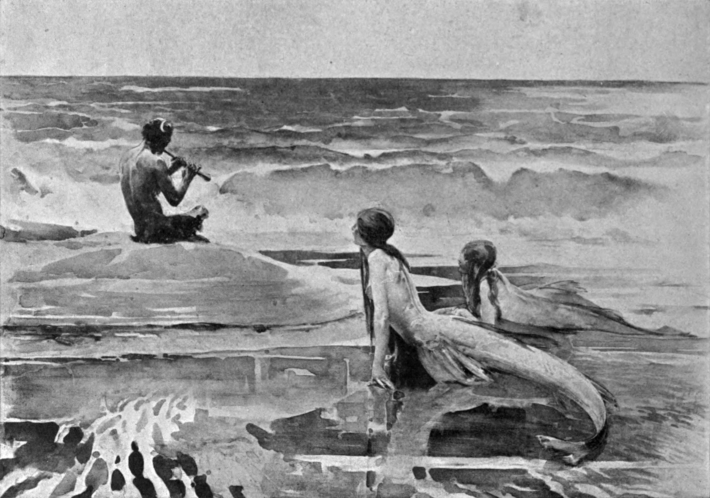 Pan the beguiler